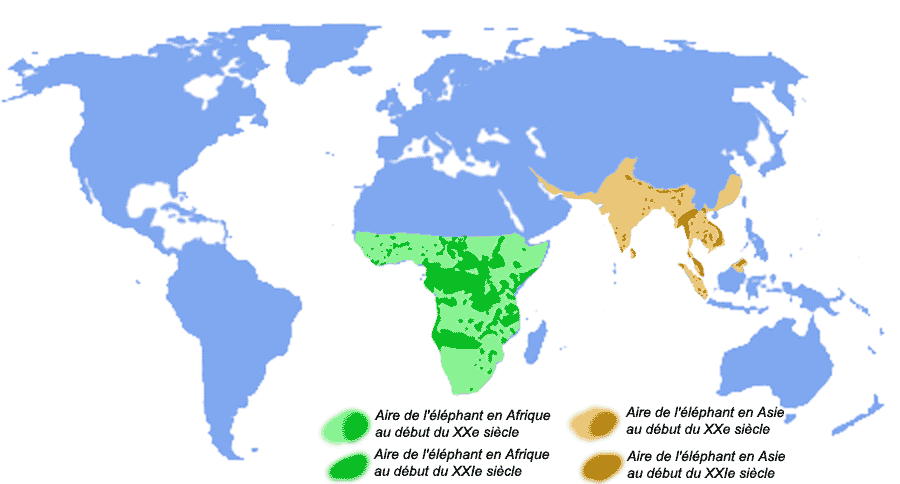 Area of presence of elephants; legend: green – african elephants; brown – asian elephants / above – at the beginning of the 20. century; below – at the beginning of the 21. century.